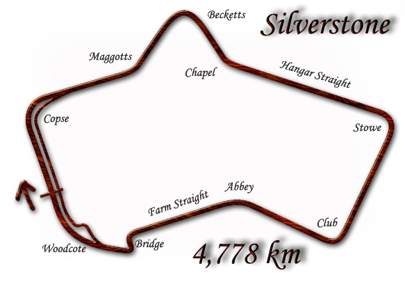 Diagram of the Silverstone Circuit following changes made in 1986. Used for Britsh Grands Prix from 1987 to 1990.